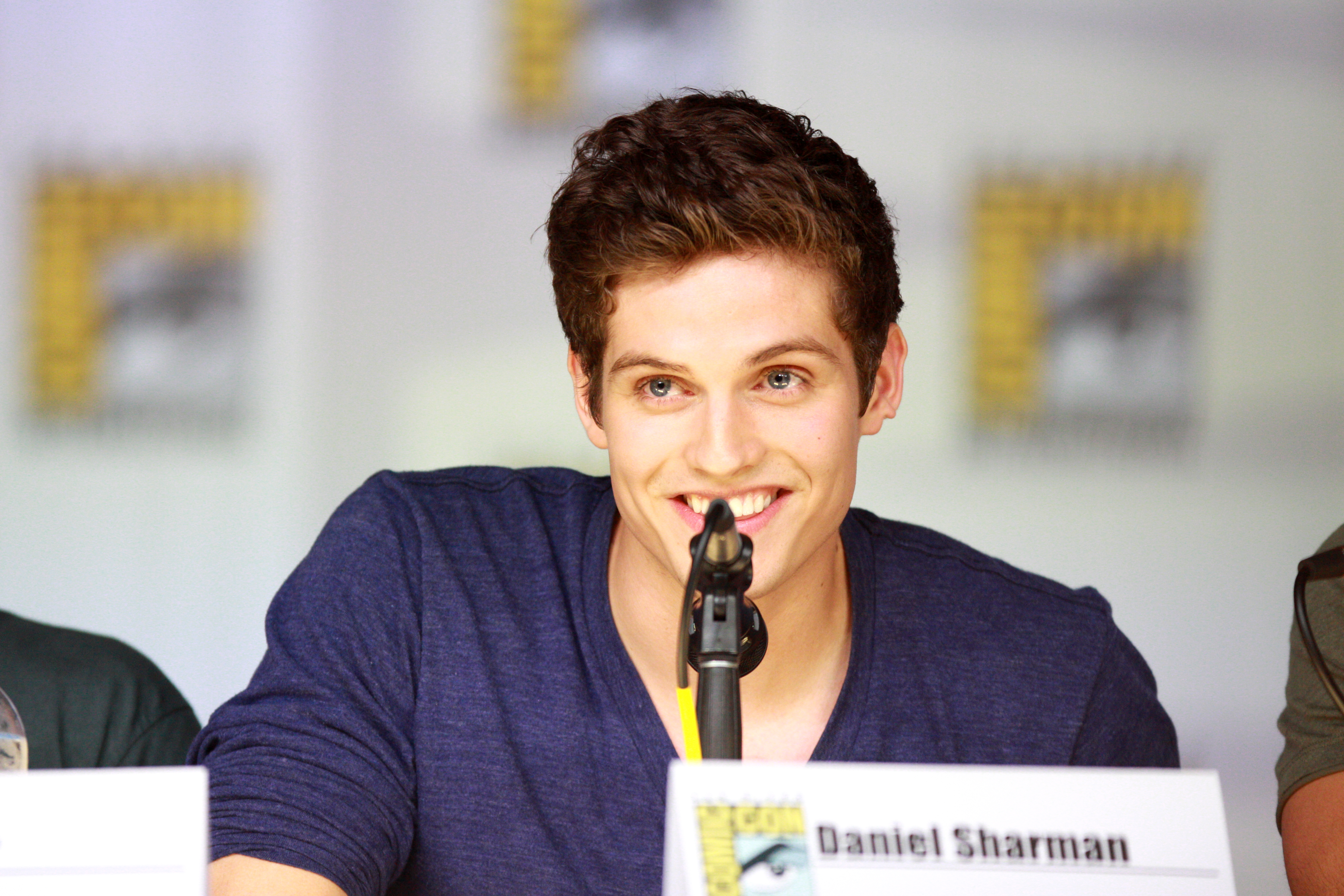 Daniel Sharman speaking at the 2013 San Diego Comic Con International, for "Teen Wolf", at the San Diego Convention Center in San Diego, California.